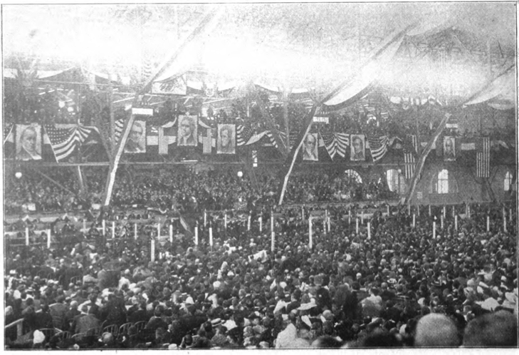 Interior shot of the 1896 Democratic National Convention